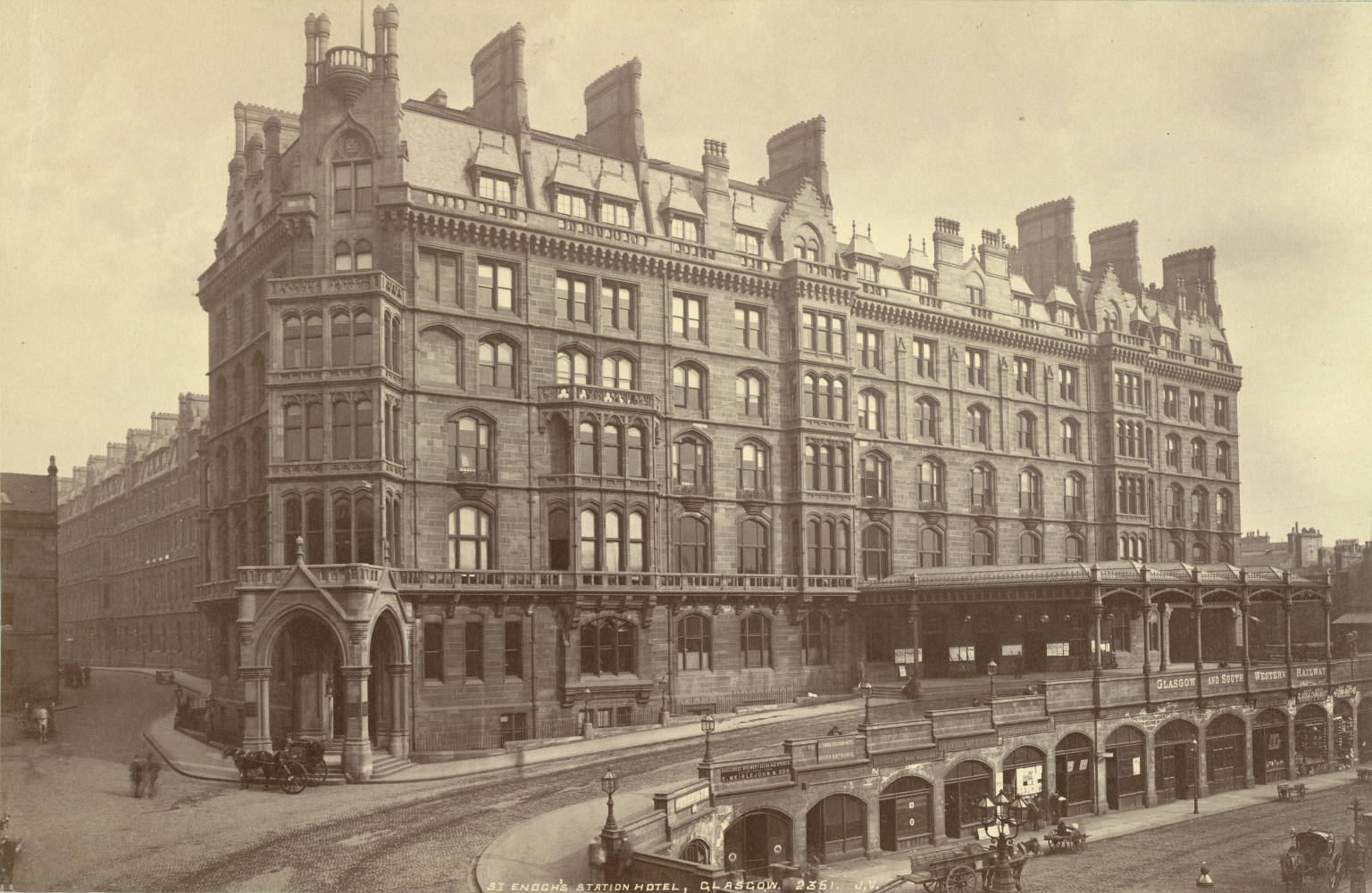 St Enoch railway station Collection: A. D. White Architectural Photographs Accession Number: 15/5/3090.01222 Title: Glasgow. Saint Enoch's Station Hotel Creator: James Valentine Bio/Origin: Scottish, 1815-1880 Role: Photographer Notes: The Saint Enoch's Station, including its hotel, was completely demolished around 1974. Classfication: Photographs Medium: albumen print Current Site: Europe: United Kingdom; Glasgow Style: Victorian Subjects: Saint Enoch's Station Hotel, Glasgow, Scotland, Hotels (public accommodations), City views, Urban views, Streetscapes, Merchants, Storefronts, Signs, Carts, Business, Railroad stations, Transportation, Oriel windows, Entrances, Arched portals Provenance: Gift of Andrew Dickson White